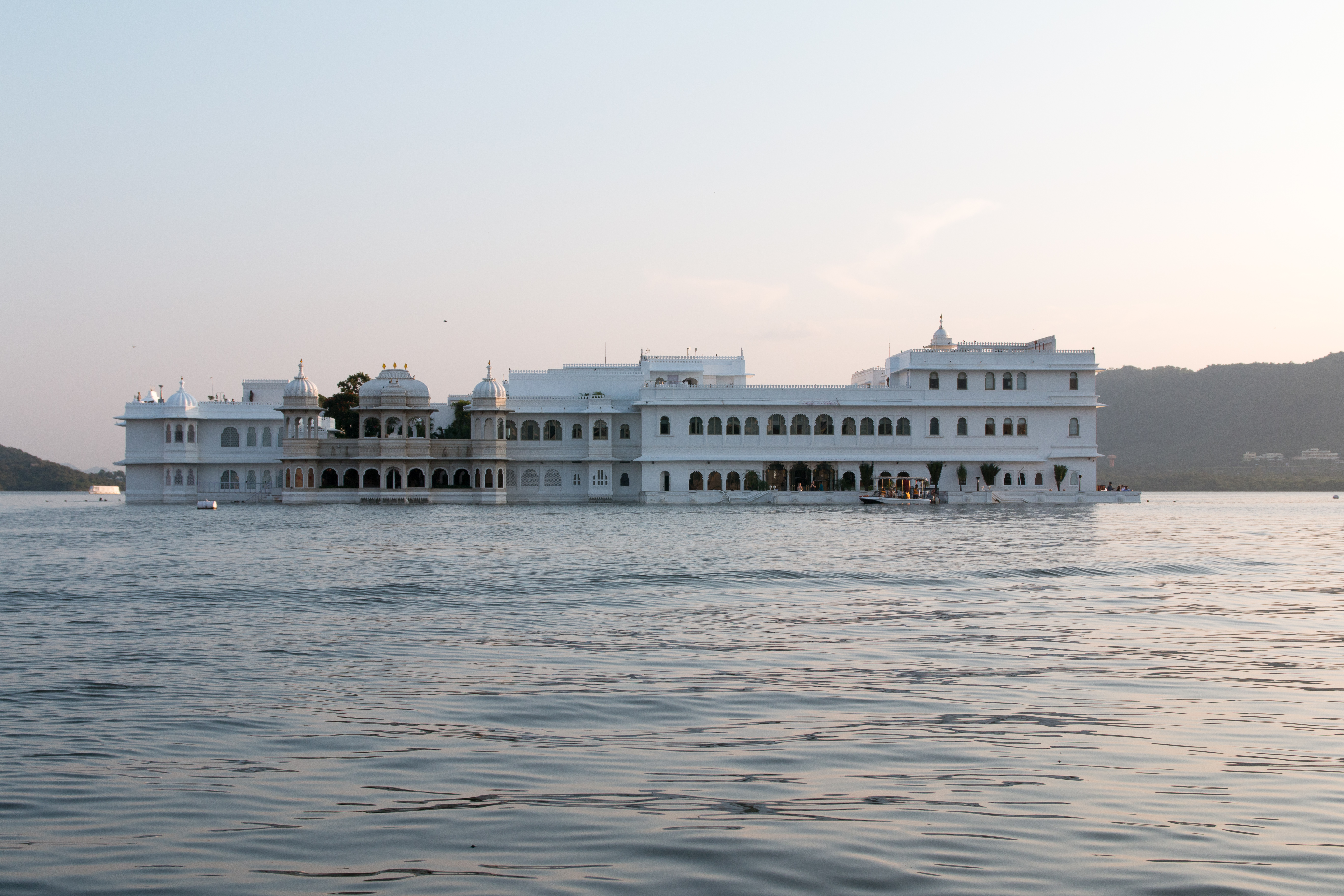 Taj Lake Palace on Jag Niwas island.